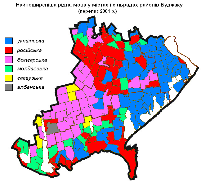 Native languages of Budjak region according to 2001 census